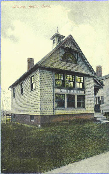 Postcard picture depicting library building in Berlin. Store Web page states: "Pub by The August Schmelzer Co, Meriden, Conn, [...] Postally Used - PM Berlin, Conn Aug 18, 1911, One Cent Stamp Intact"